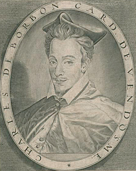 Charles de Bourbon, Archbishop of Rouen (1562-1594); contemporary engraving